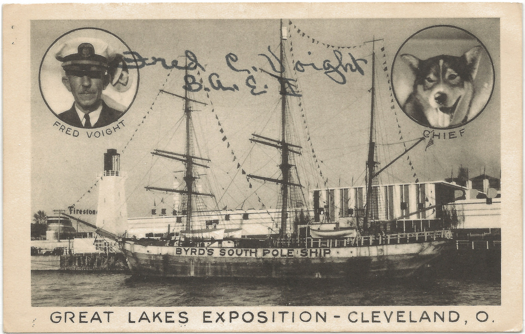 Great Lakes Exposition, Cleveland, Ohio (World Fair of 1936-1937). The ship is the "City of New York", the ship that carried Byrd on his first Antarctic expedition (1928–1930). The "City" was docked at the Exposition throughout its two year run. She had earlier appeared at the the Chicago Century of Progress Exposition (1933-1934). The member of the crew shown is boatswain Fred Voight who was assigned to the second expedition (1933-35). Fred C. Voight (Frederick Carl Voight) (-1955). Served as one of two special sea-post clerks on board the freighter JACOB RUPPERT. The clerks were: Richard S. Russell and Fred C. Voight. The dog "Chief" is one of the 153 dogs taken on the second expedition. The Great Lakes Exposition (also known as the World Fair of 1936) was held in Cleveland, Ohio, in the summers of 1936 and 1937, along the Lake Erie shore north of downtown.